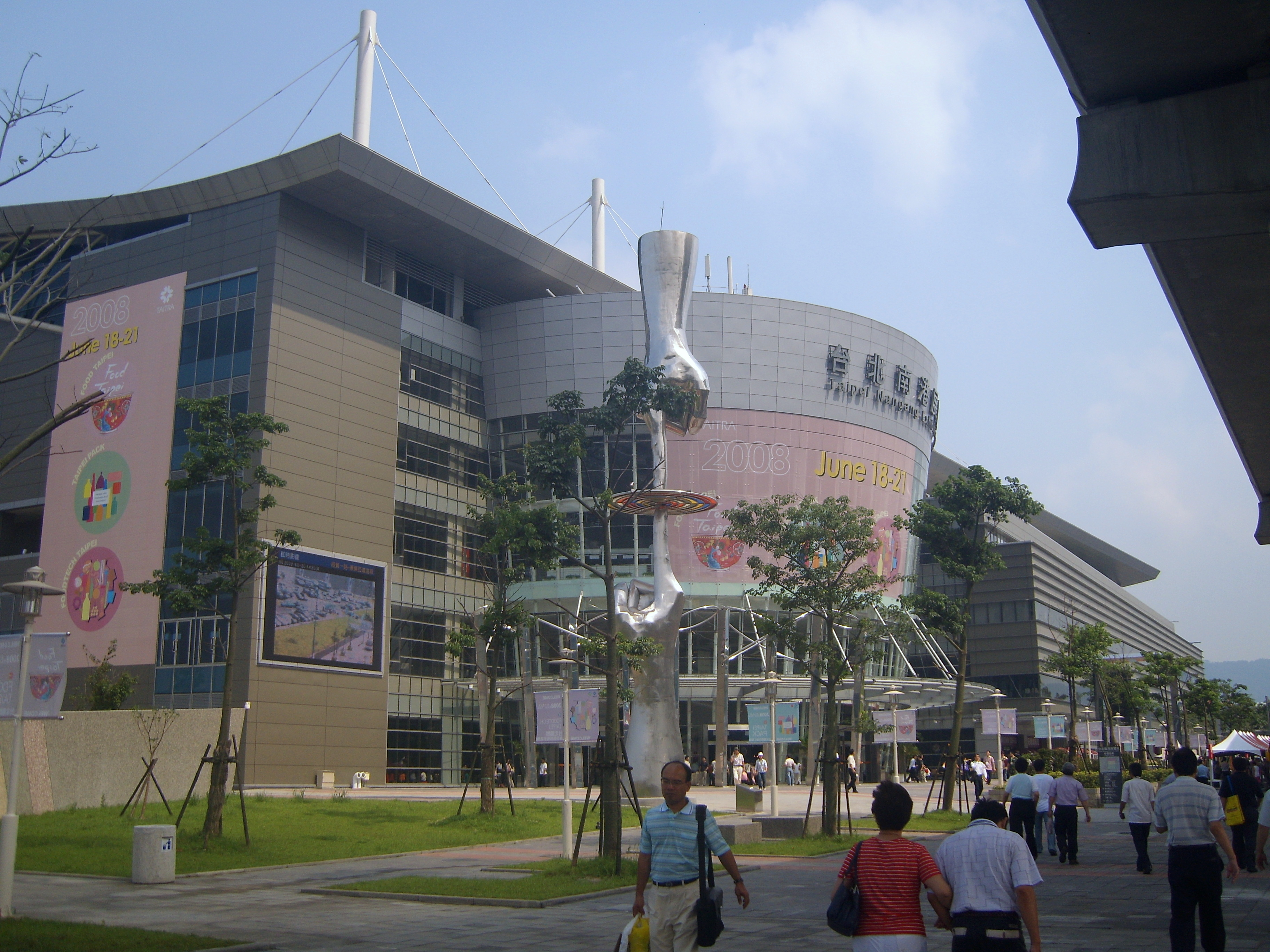 2008 Food Taipei, Taipei Pack, and Foodtech Taipei, at TWTC Nangang.